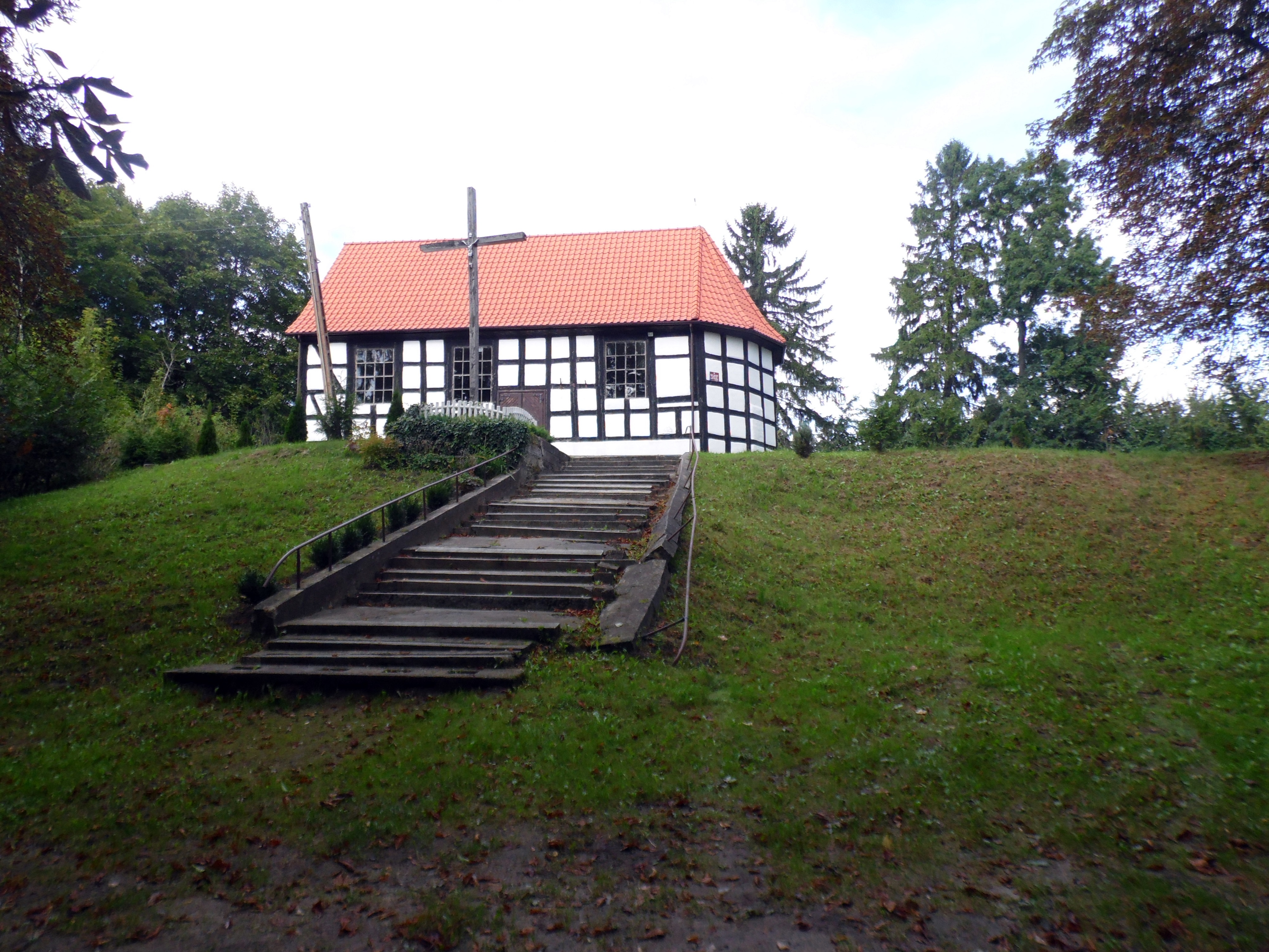 Church in Kąkolewice, NW Poland